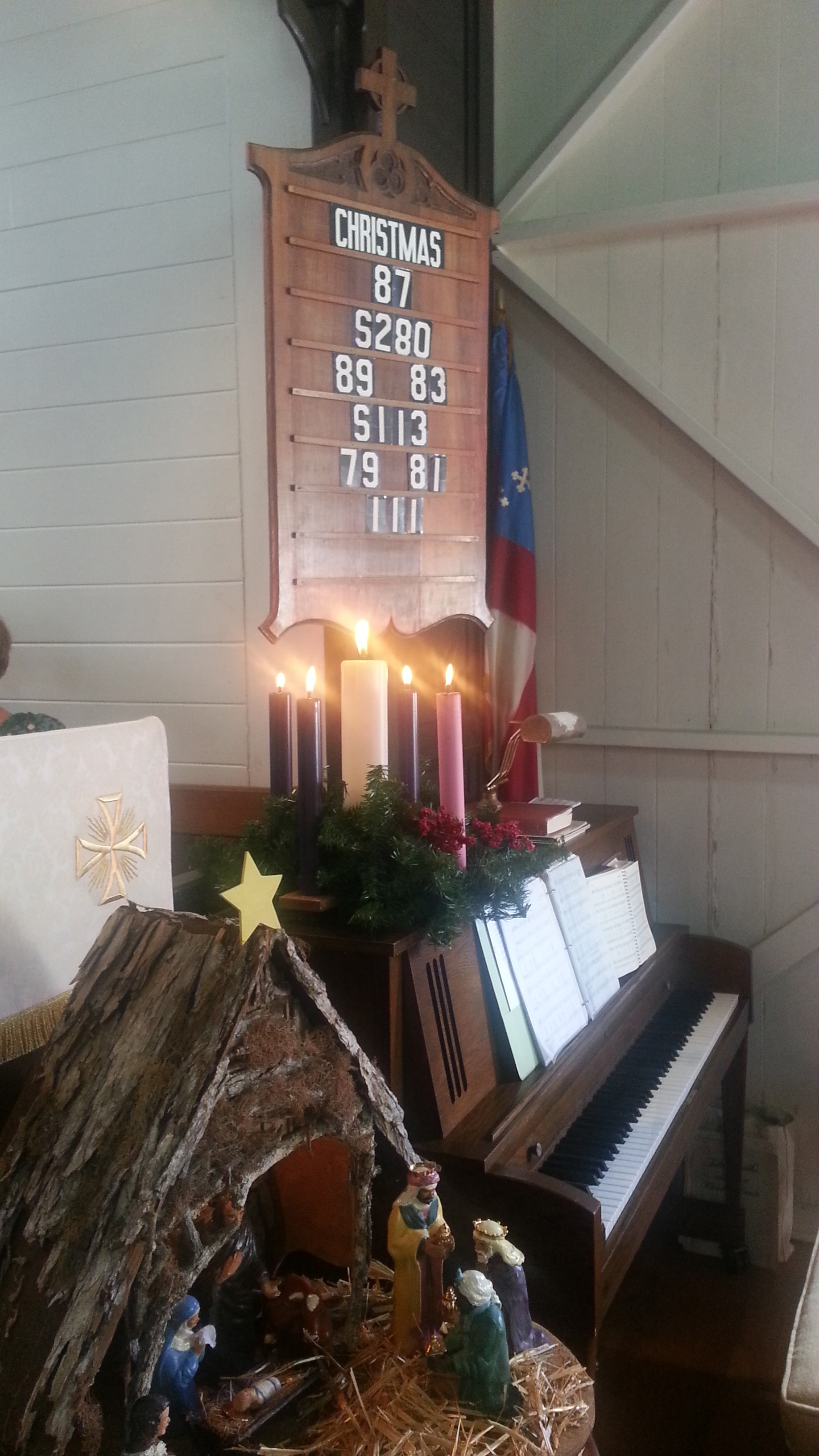 Advent Candles at Christ Church Episcopal, Kealakekua, Hawaii, USA